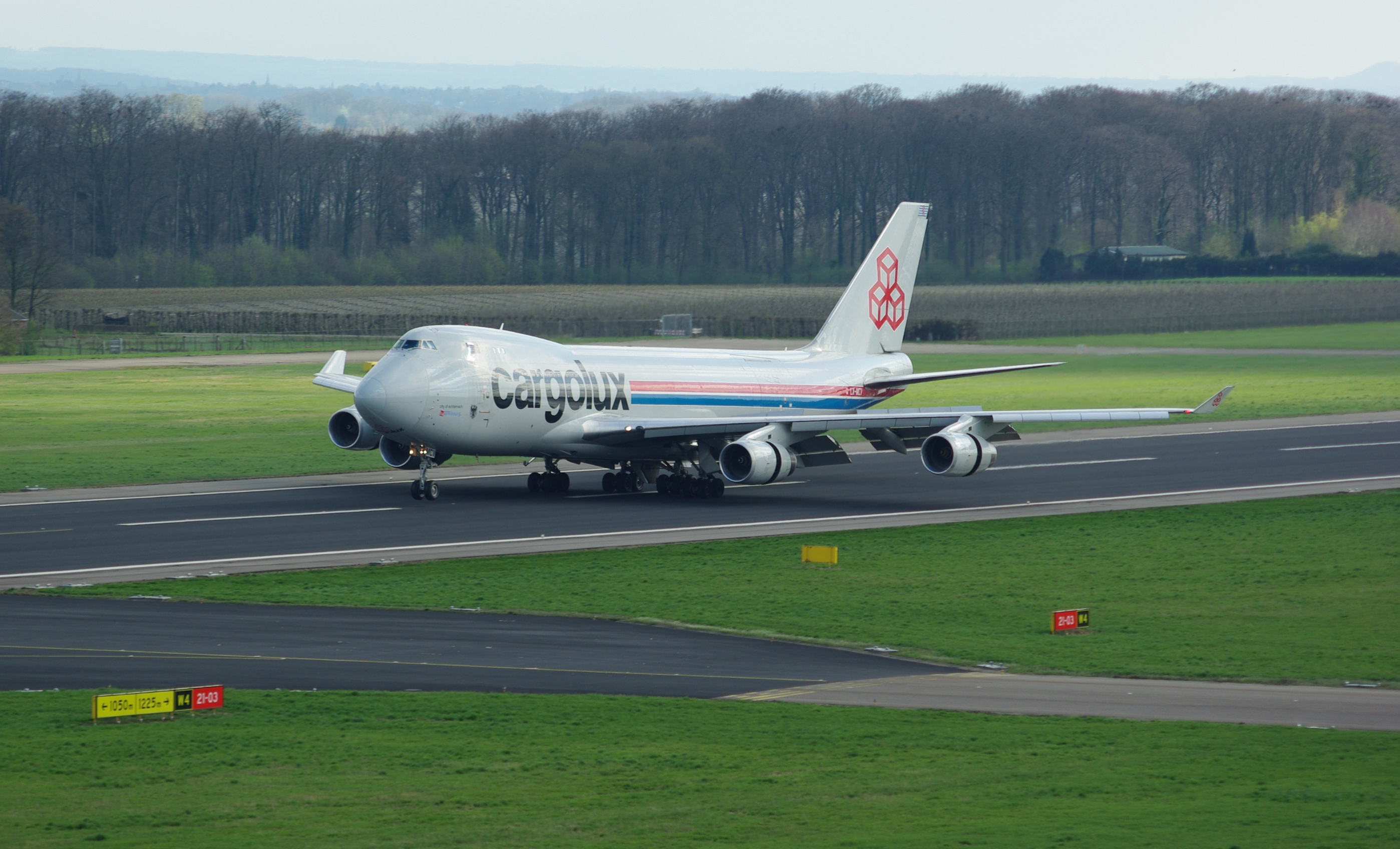 Cargolux Boeing 747-400F LX-MCV landing at Maastricht-Aachen Airport (EHBK)